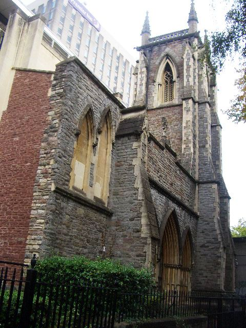 This 2011 photo shows the remains of St James' Presbyterian Church in Bristol that was bombed in the 2nd World War. Photo taken in 2011 by the contributor who was christened in the church the very day that it was bombed in 1940 -- a photo (taken apparently by the Bristol Evening Post newspaper) of the gutted interior is lodged in the record office of the city of Bristol.Duncanogi (talk) 14:40, 30 September 2011 (UTC)